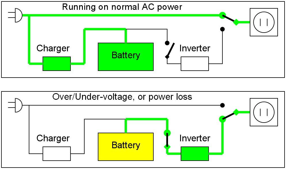 Simple, easy-to-understand diagram of how a Standby UPS works.